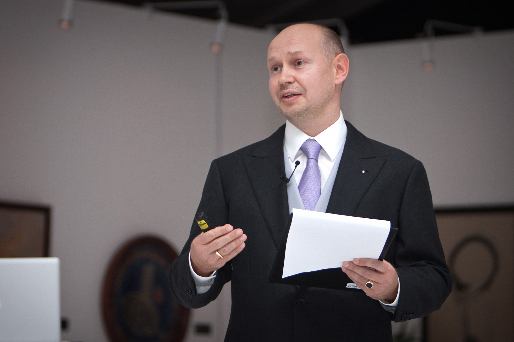 the exhibition openning ceremony